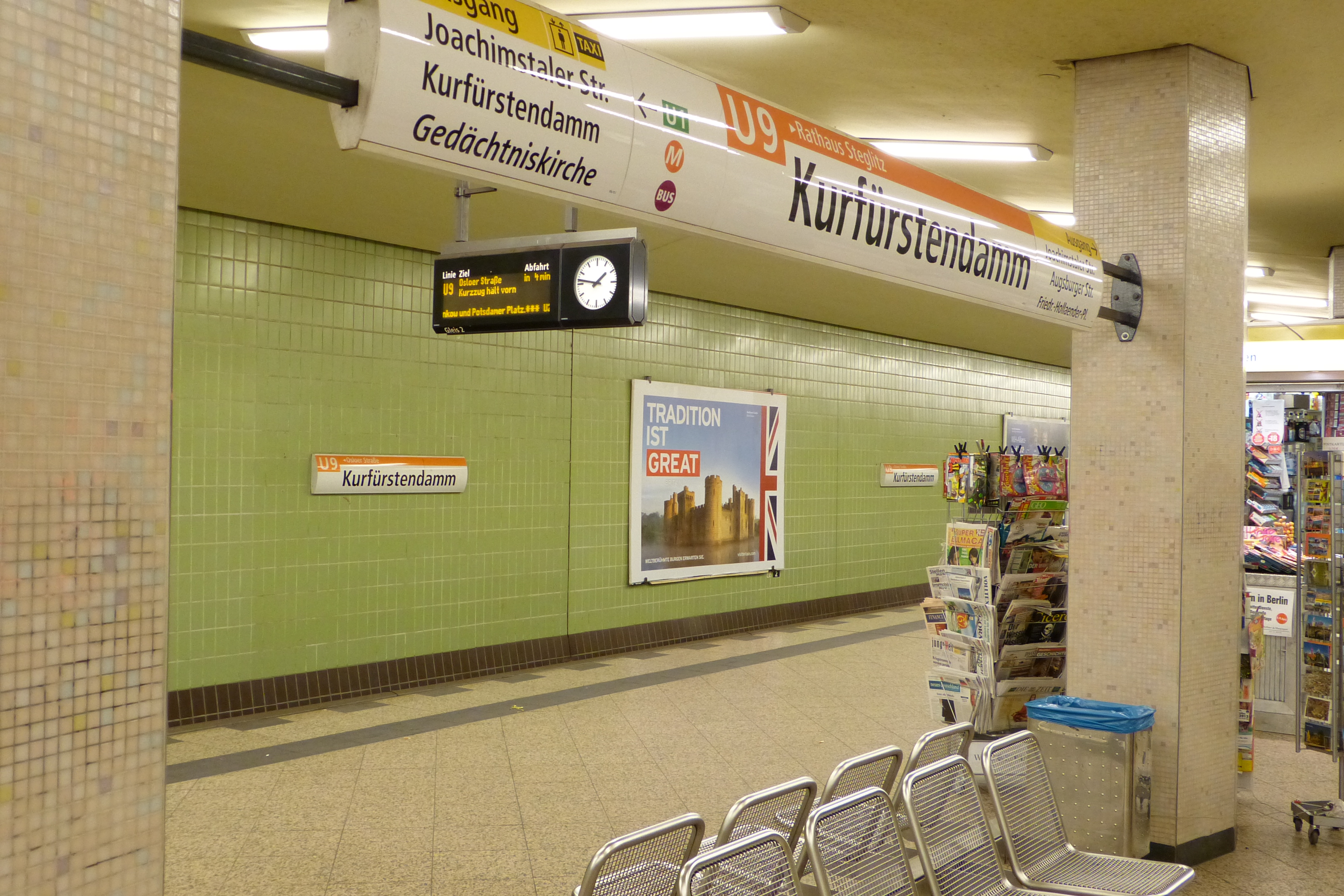 Subway Kurfuerstendamm, U9 platform with information signs